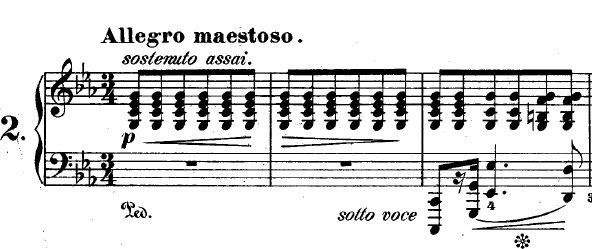 Polonaise in C minor, Op. 40, No. 2 - F. Chopin